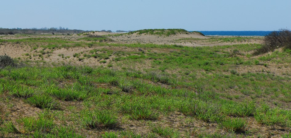 Coastal Dune Ecosystem at Kızılırmak Delta